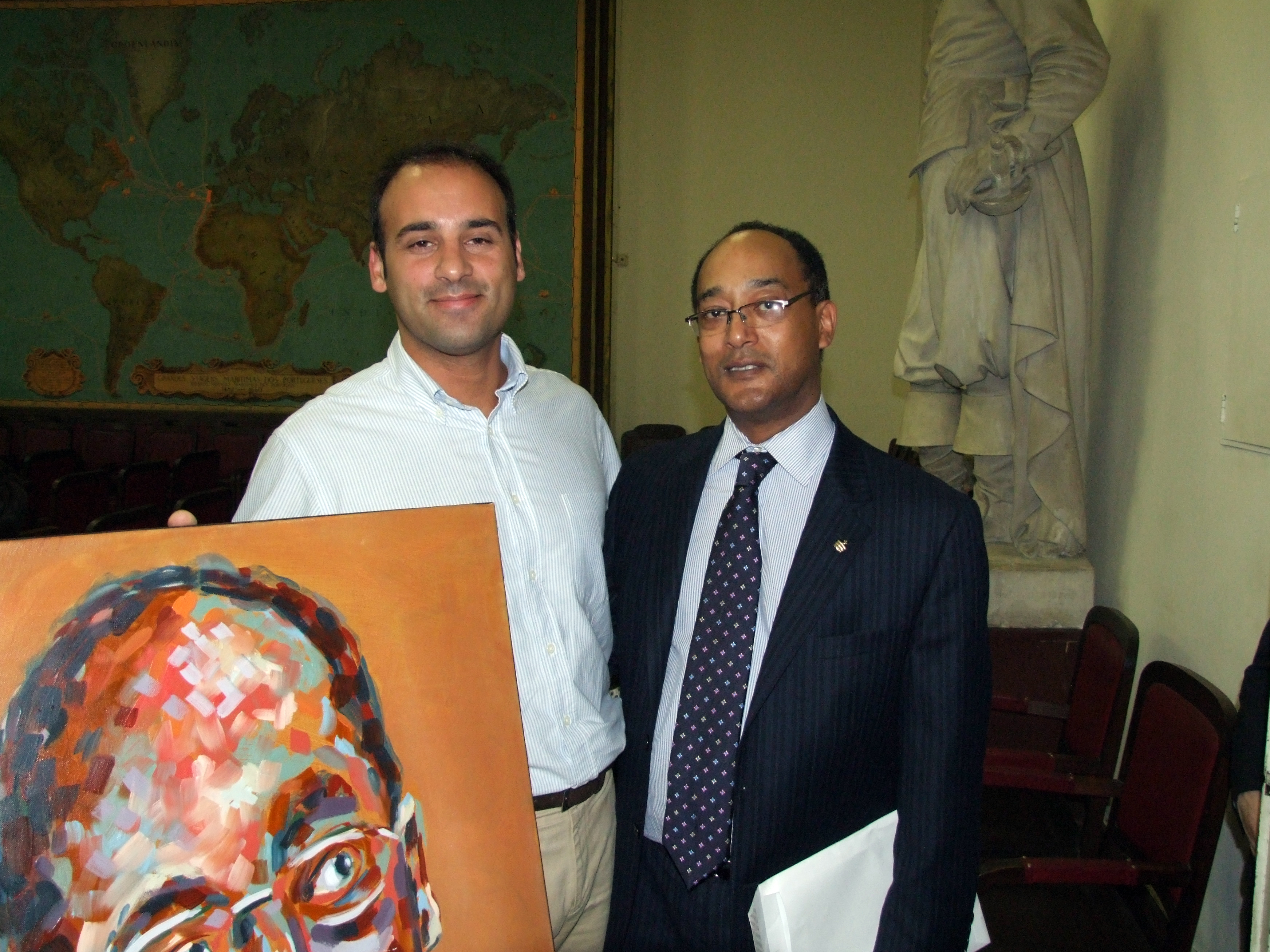 Carruço e Ermias Selassie